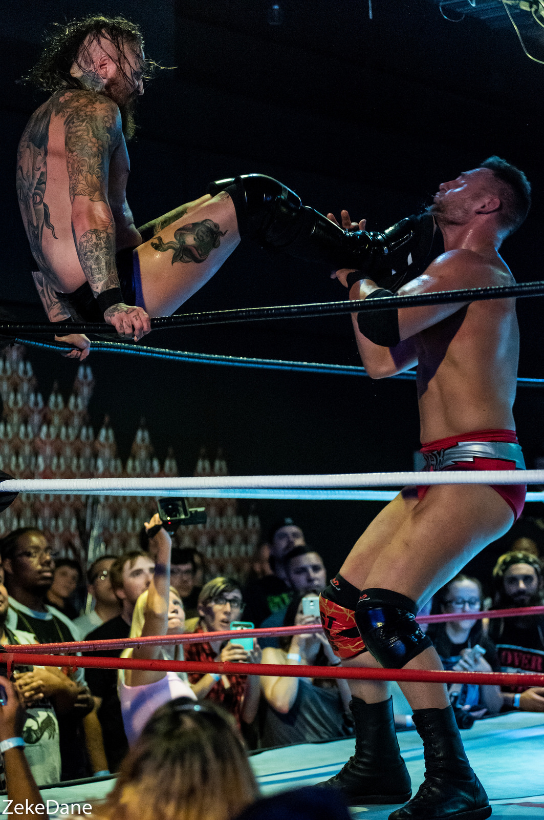 Wrestler Tommy End kicking Donovan Dijak in an August 2016 BEYOND WRESTLING match in Providence RI